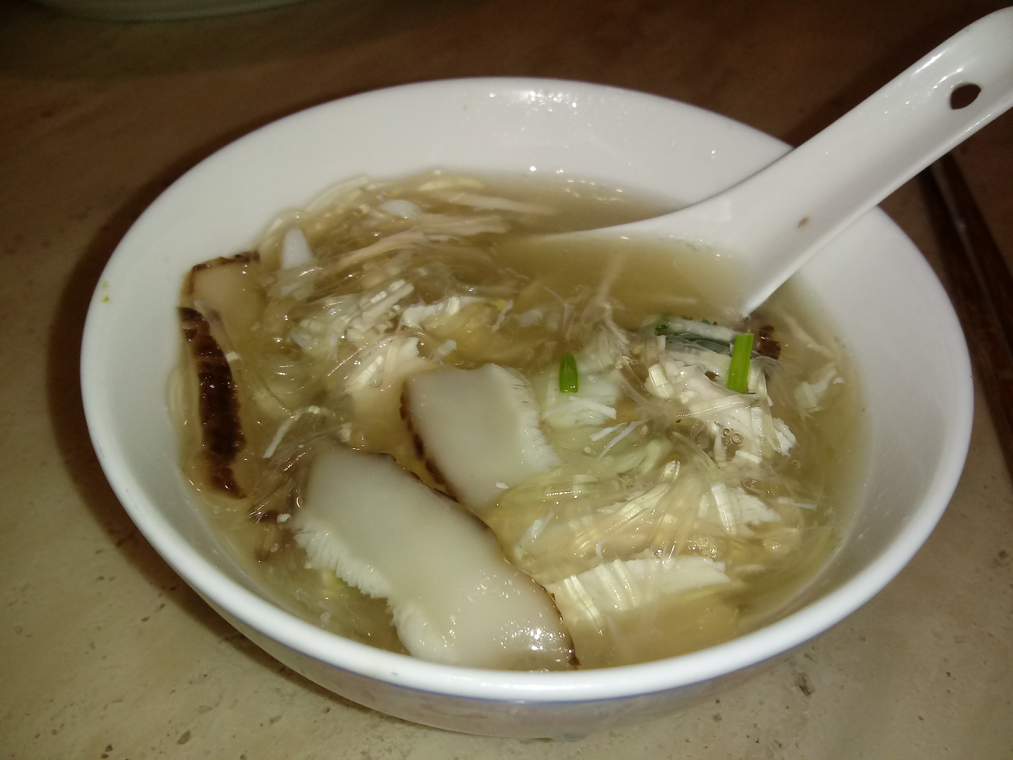 A bowl of imitation shark fin soup, prepared for the celebration of Chinese New Year Day of 2020.